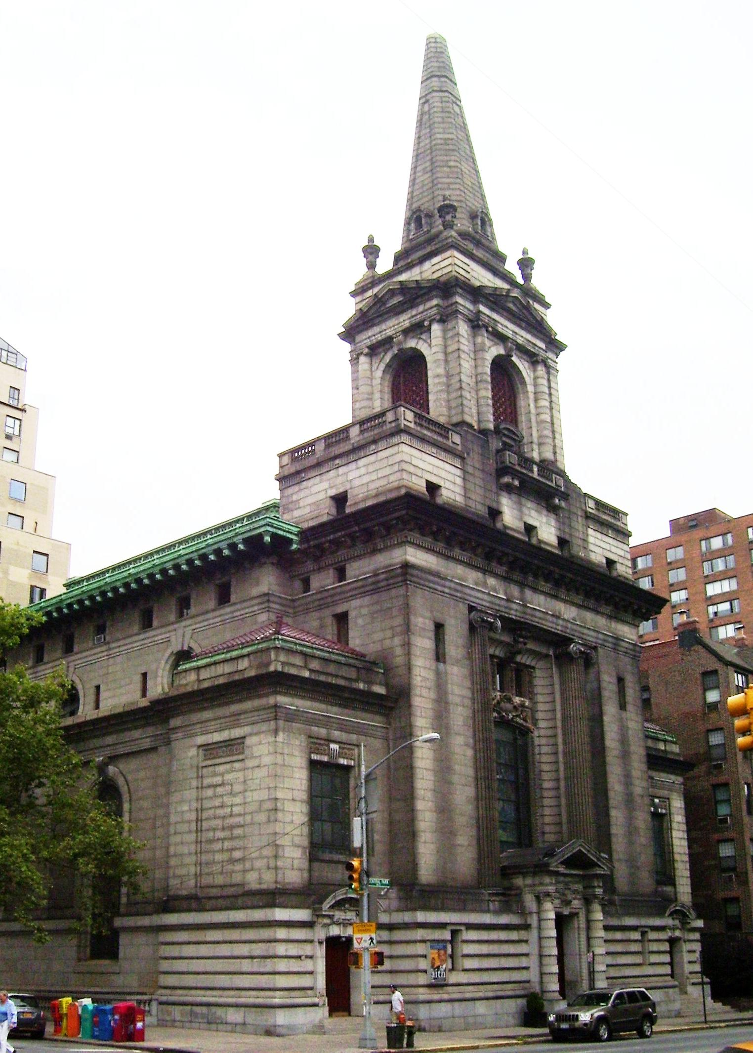 The Crenshaw Christian Center East was opened in 2001 by the Ever Increasing Faith Ministry, based in Los Angeles, in the former First Church of Christ, Scientist at 1 West 96th Street on the corner of Central Park West. The building was designed by Carrere & Hastings in the style of Nicholas Hawksmoor (a combination of English Baroque and French Beaux-Arts detailing) and was built in 1899-1903. In 2003, the congregation, which had moved to the Second Church, put the building up for sale, and it was purchased by the ministry in 2004. The building, which features stained-glass windows by John LaFarge, was designated a NYC landmark in 1974. (Sources: Guide to NYC Landmarks (4th ed.), AIA Guide to NYC (4th ed.), From Abyssinian to Zion (2004) and "About Us: The Facility" on the Crenshaw Christian Center East website). In January 2018 the Children's Museum of Manhattan announced that it had acquired the building.